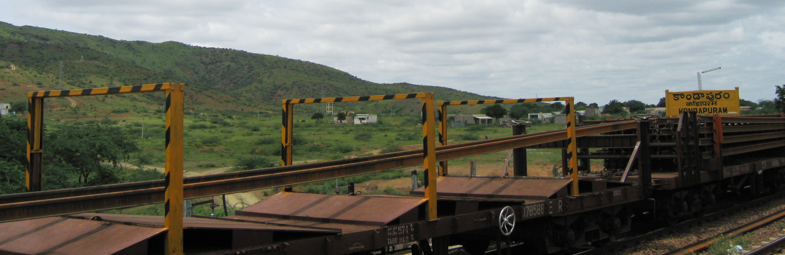 Andhra Pradesh - Landscapes from Andhra Pradesh, views from Indias South Central Railway